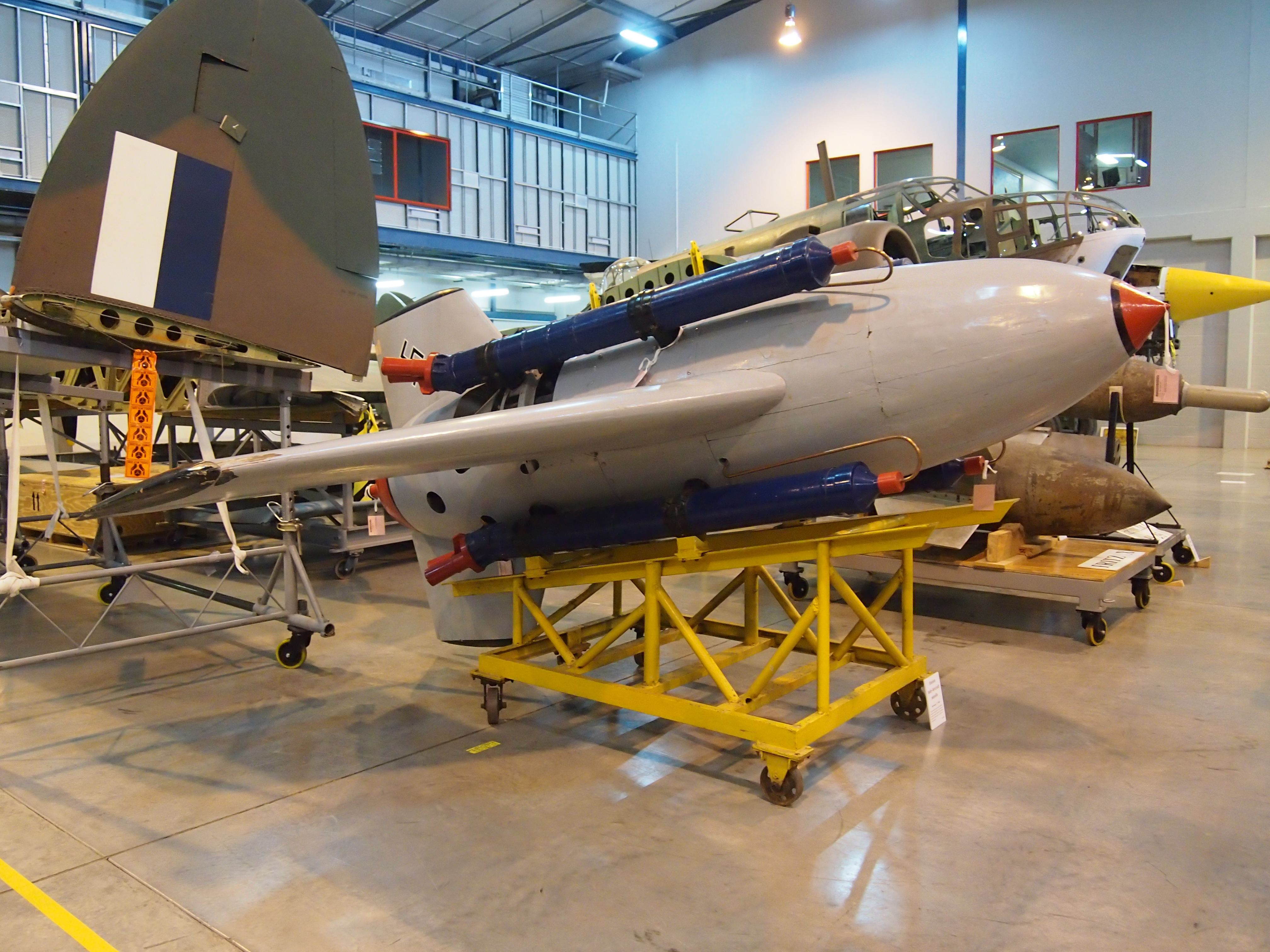 An Enzian anti-aircraft missile at the Australian War Memorial's Treloar Technology Centre in September 2012